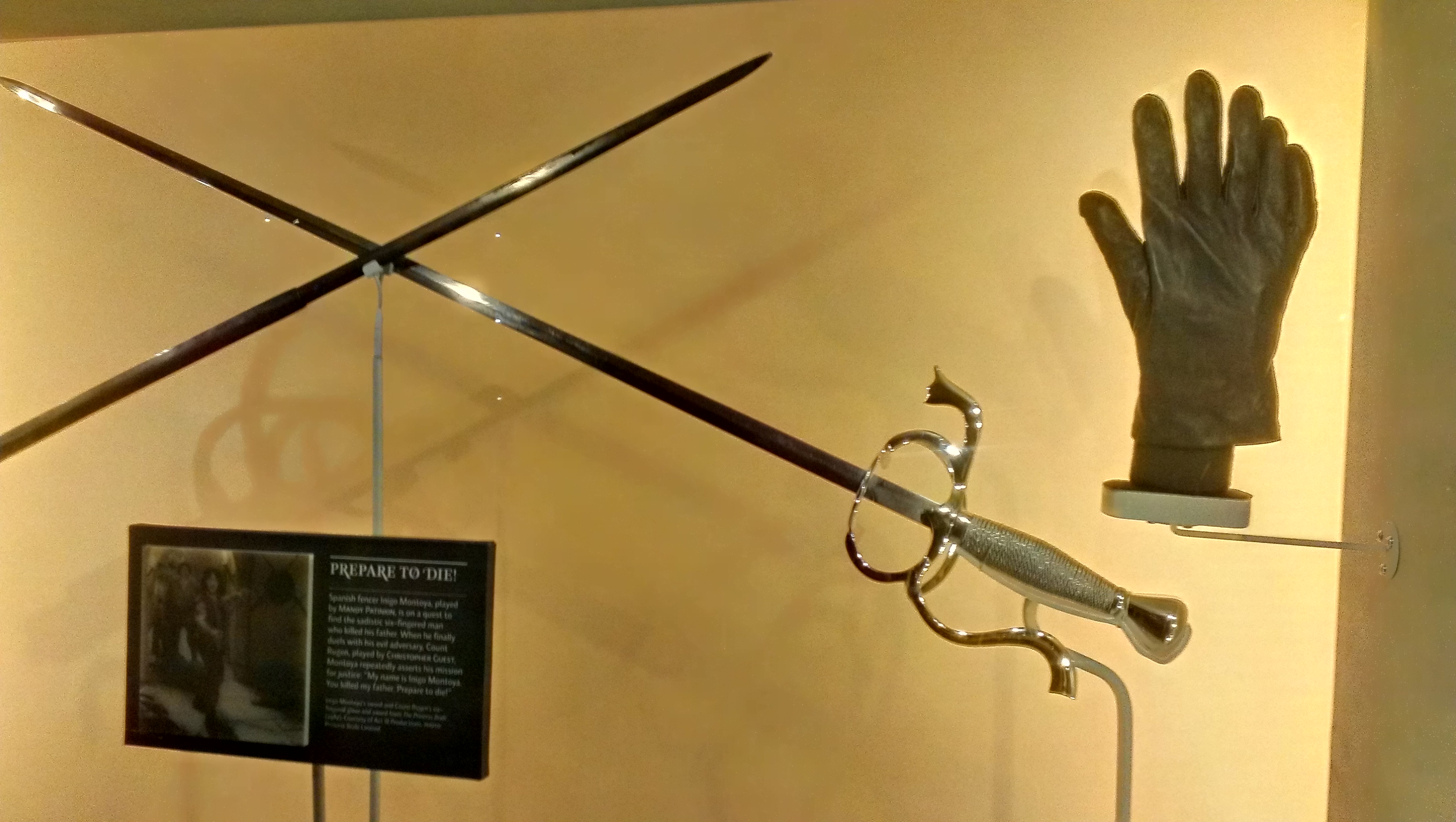 “Hello, my name is Inigo Montoya. You killed my father. Prepare to die!” displayed at Fantasy: Worlds of Myth and Magic, Experience Music Project/Science Fiction Hall of Fame, Seattle.